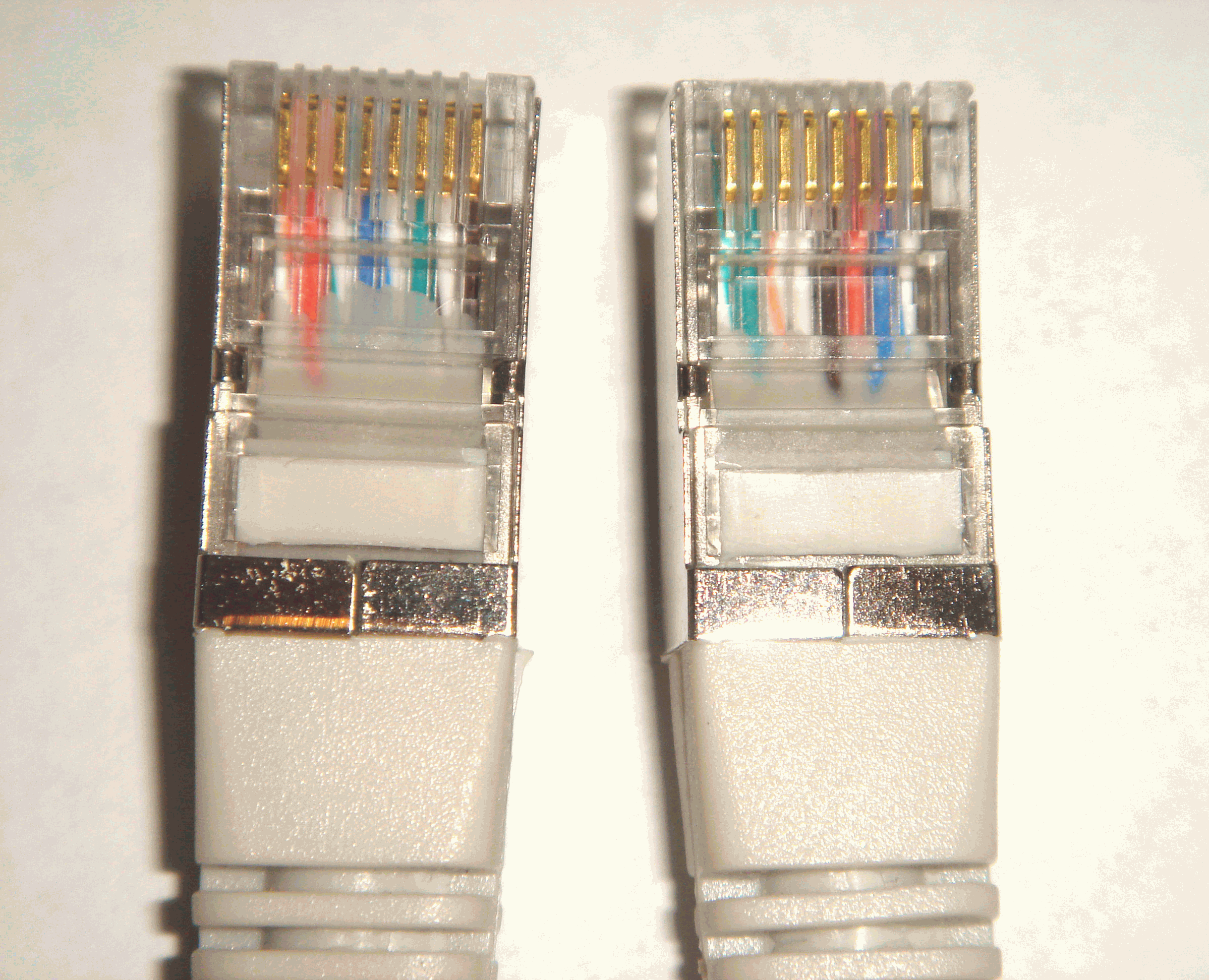 Comparison of connector wiring at both ends of an Ethernet crossover cable. Note wire color sequence in each connector - suitable for use with 100BASE-T4 (gigabit)